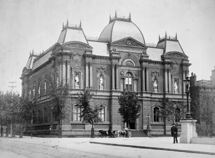 The Corcoran Gallery of Art (now the Renwick Gallery of Art, pictured sometime between 1884 and 1888. Note the statues in the niches on the second floor and historic first floor window configurations